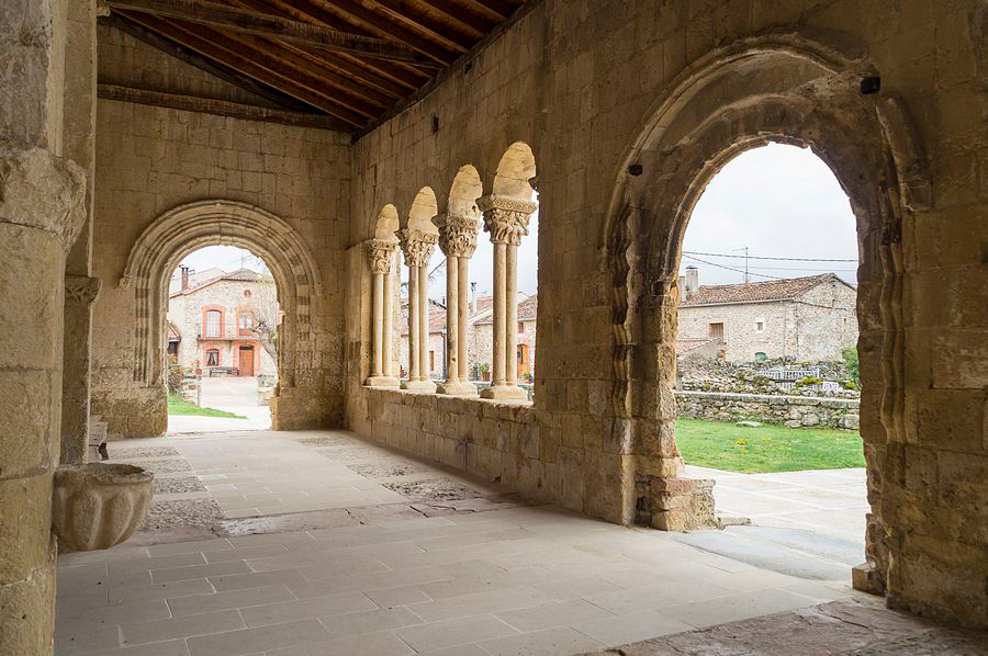 Iglesia románcia de San Miguel siglo XII en Sotosalbos